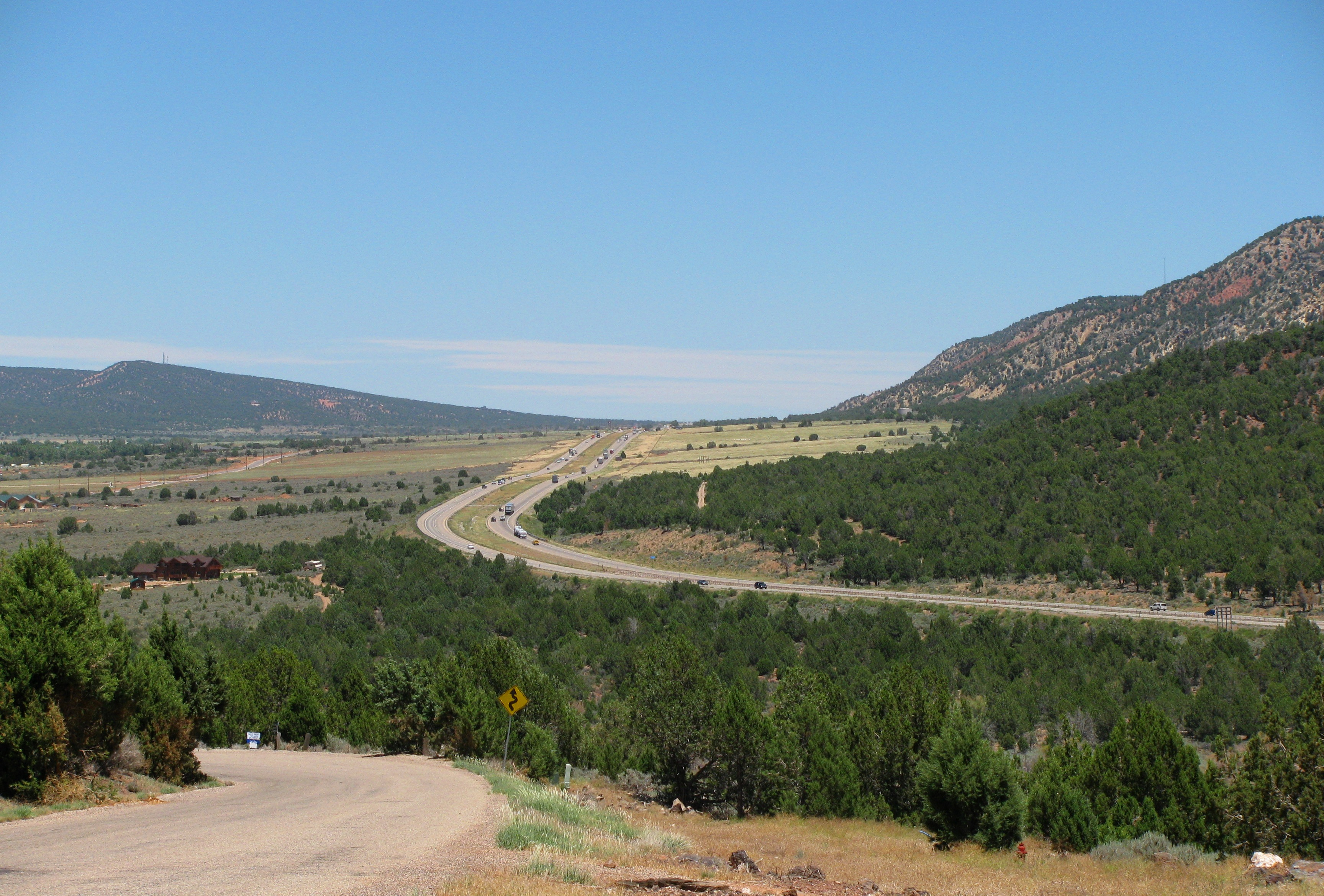 Interstate 15 in Utah, just southeast of New Harmony, looking north towards Kanarraville and Cedar City; photo by self, July 2009, GFDL or equivalent